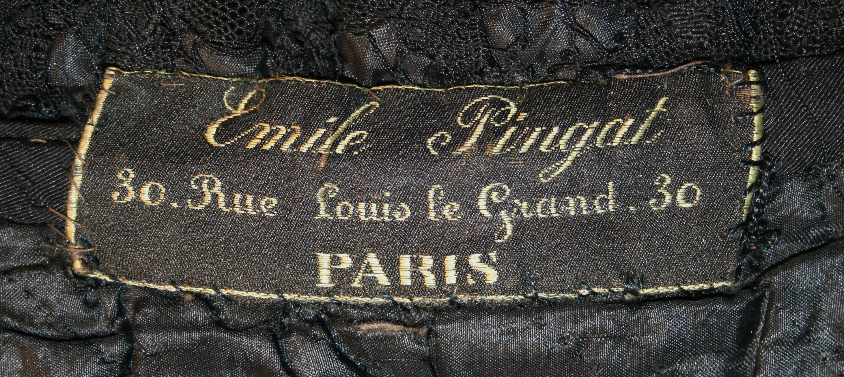 French; Cape; detail : Label of French fashion designer Émile Pingat, with his address: 30 rue Louis-Le-Grand, Paris